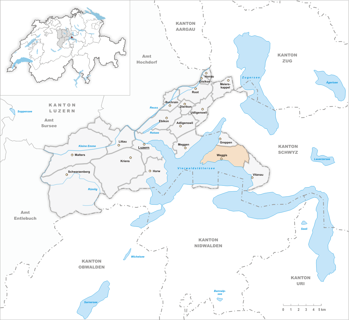 Municipality Weggis